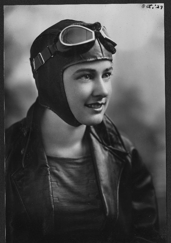 Helen Richey portrait, 1929 Helen Richey Collection Photo Repository: San Diego Air and Space Museum Archive